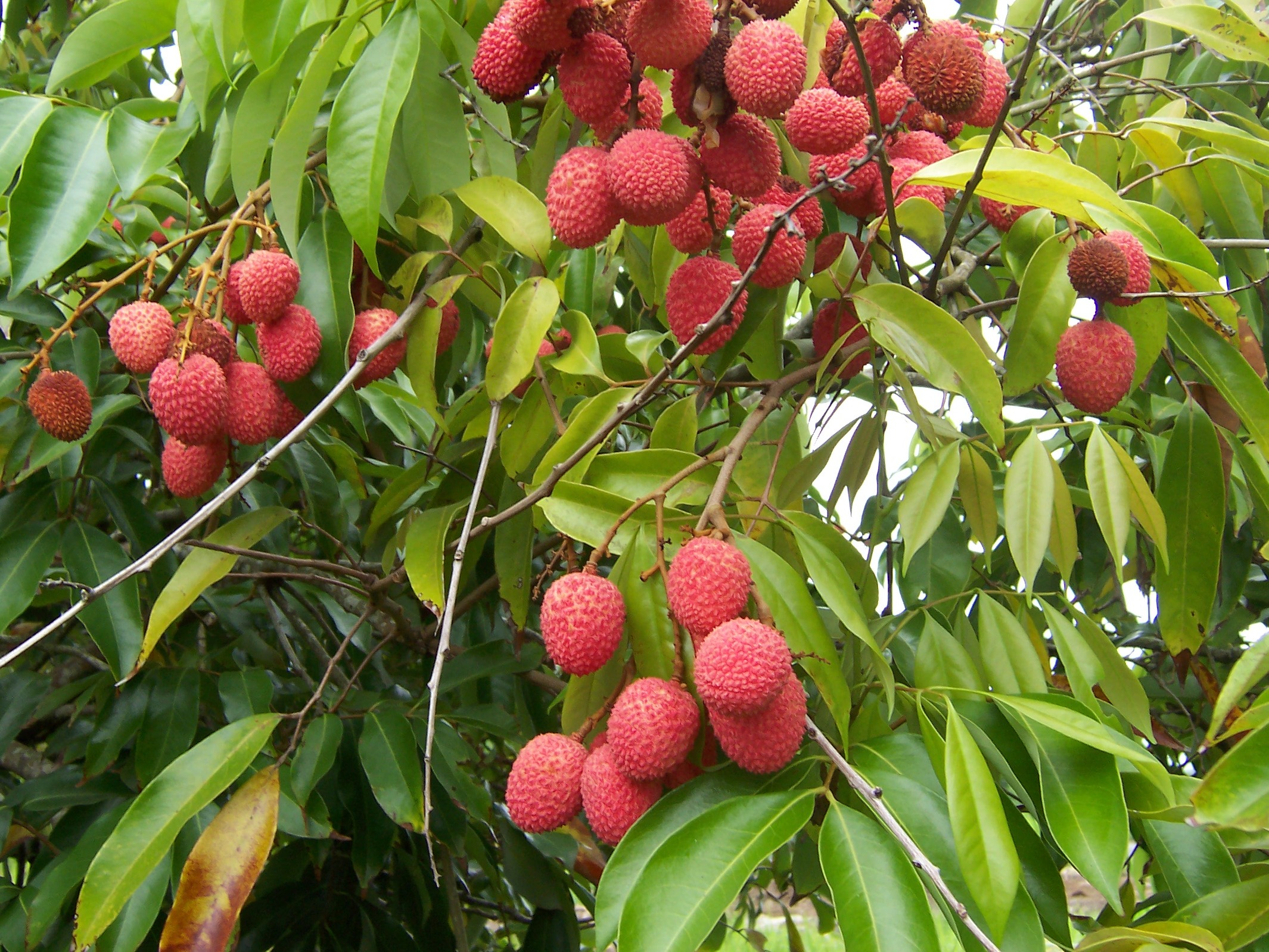 Lychees (Litchi chinensis), picture taken at Saint-Benoît (Réunion island)